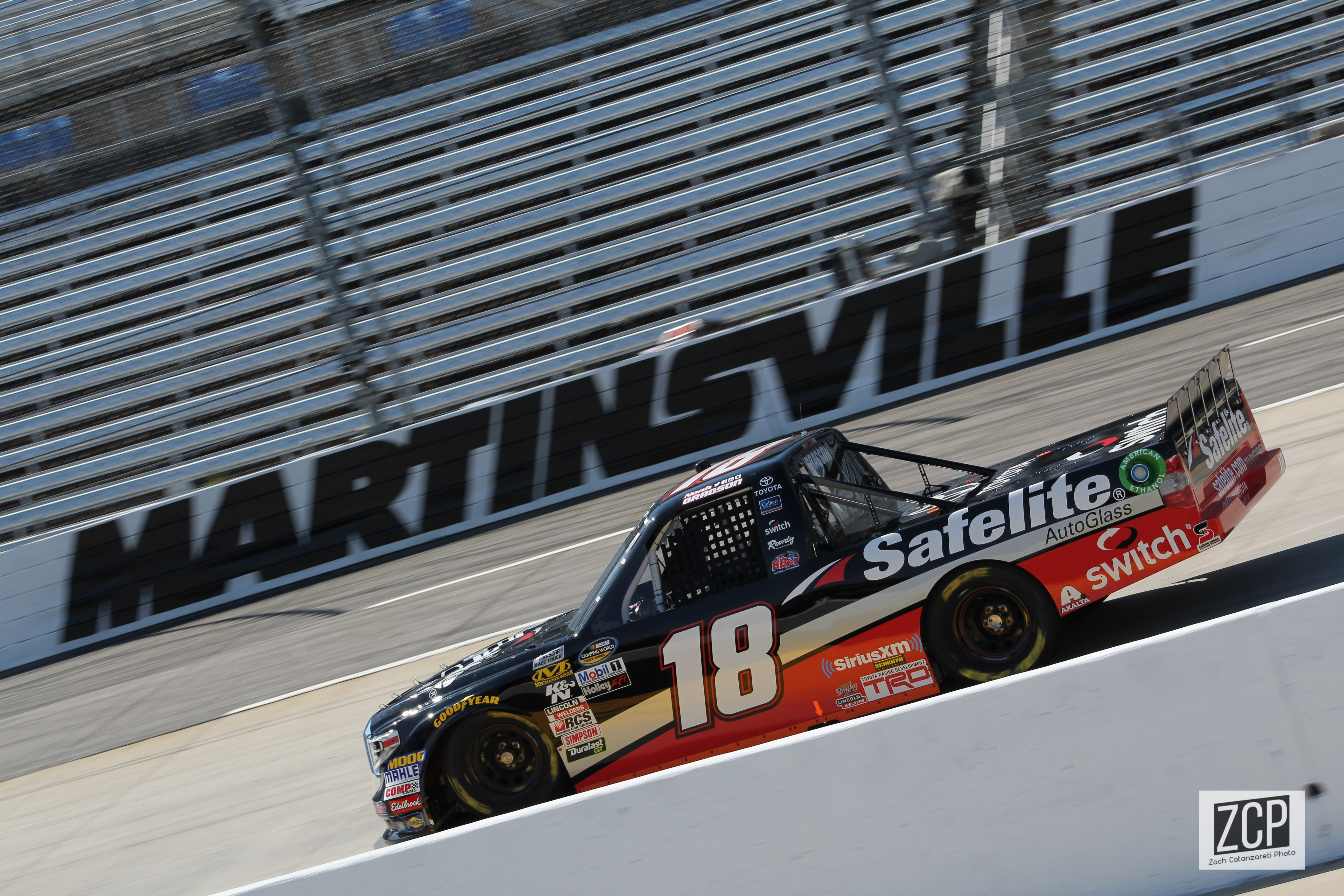 Gragson at Martinsville in 2018